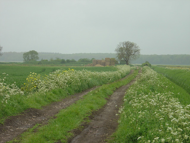 Potterhanworth Fen: Looking towards Potterhanworth Wood.